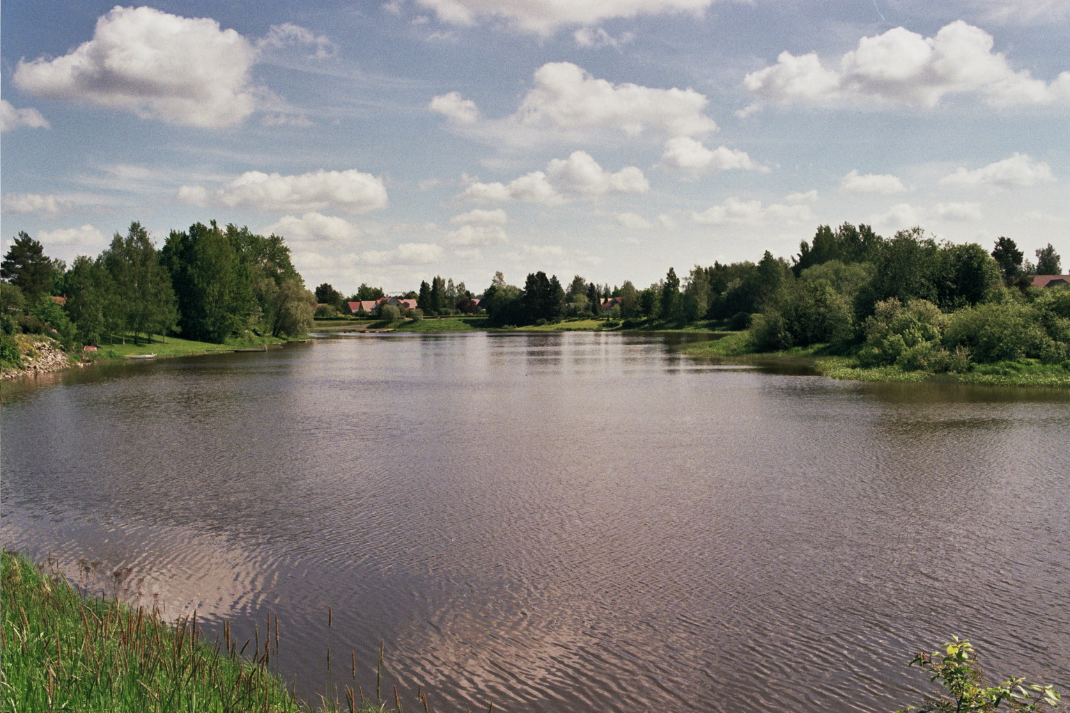 River Loimijoki in Huittinen, Finland.